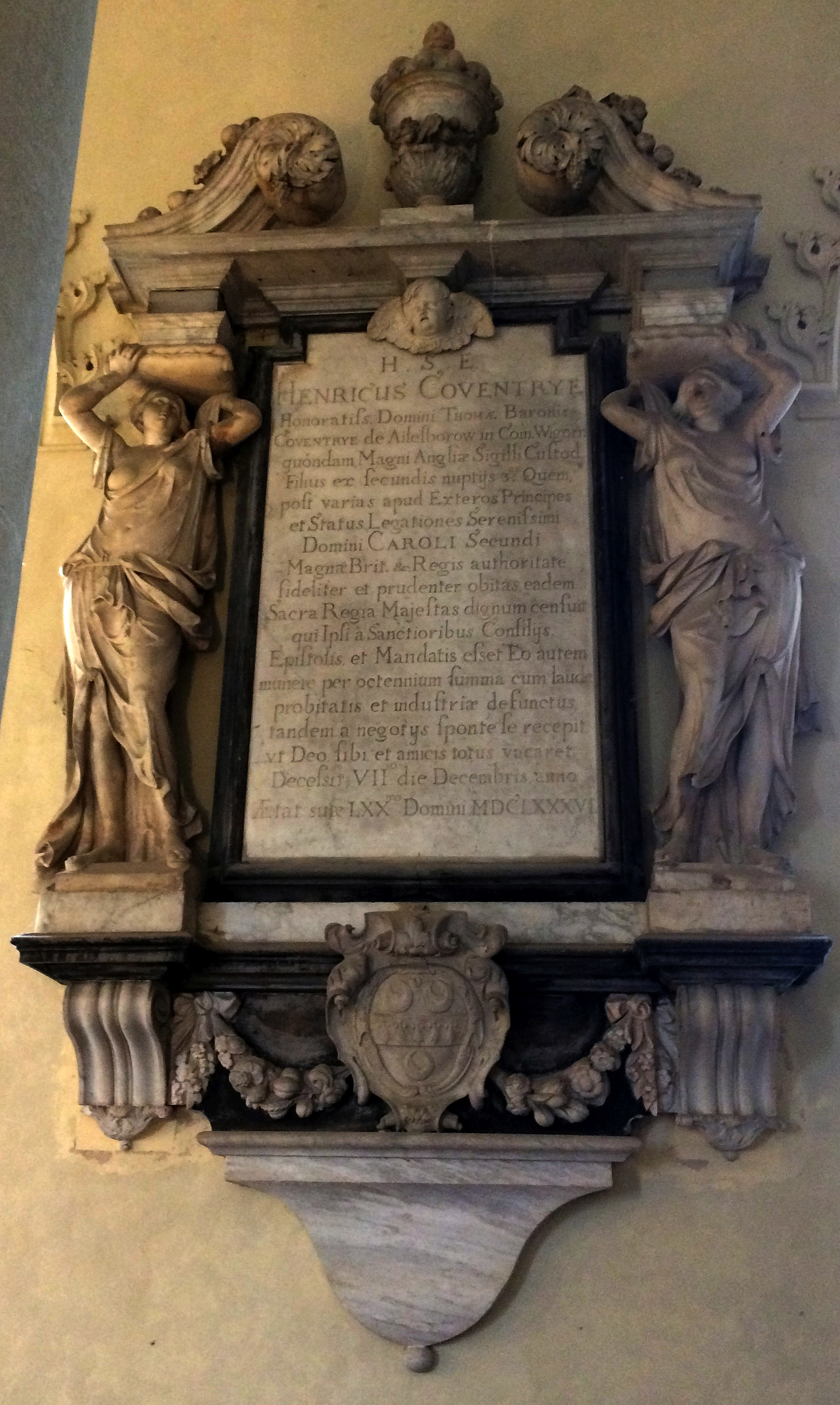 St Mary Magdalene, Croome, Worcs: Wall tablet to Henry Coventry (1619–1686)